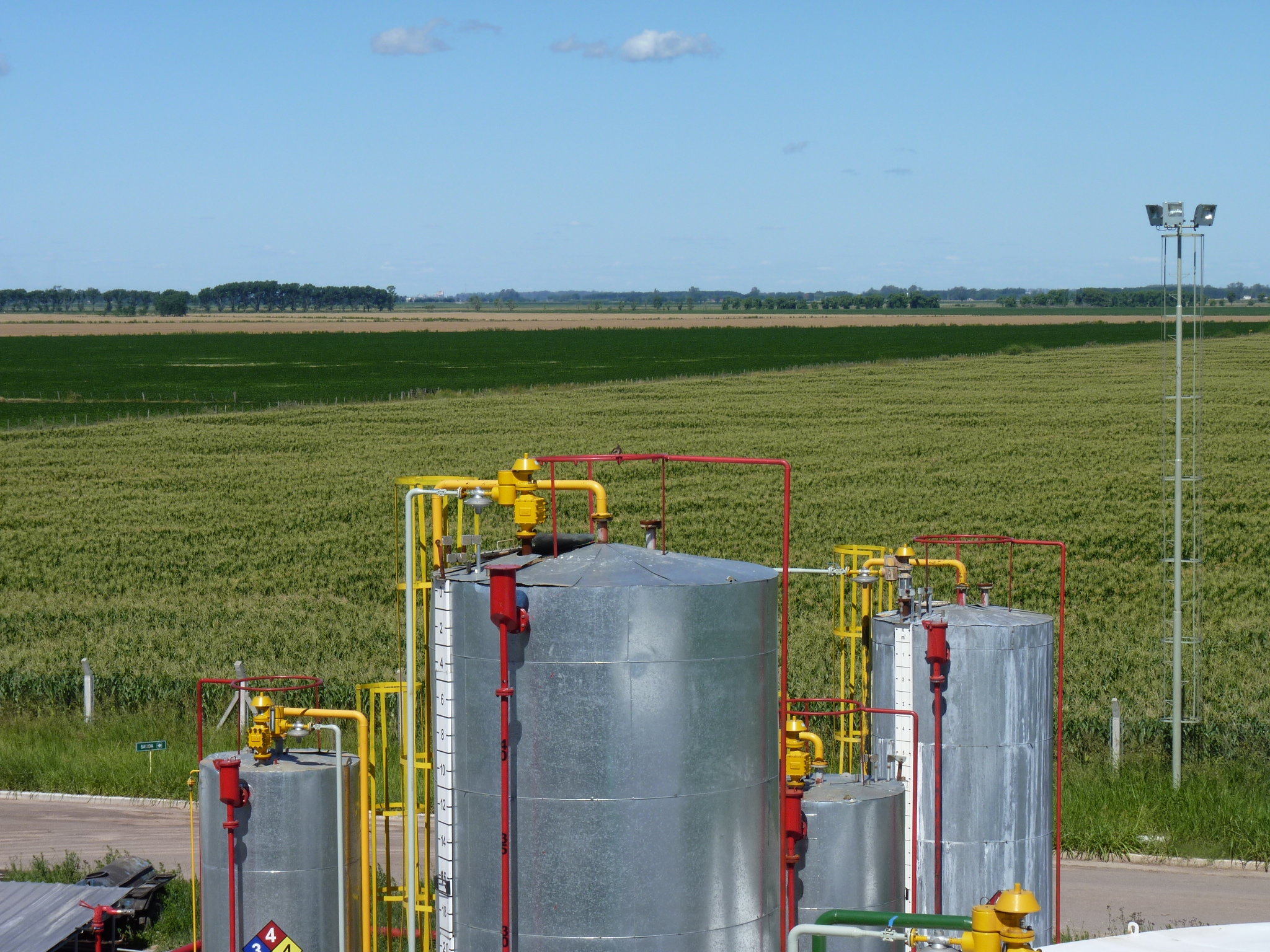 Biodiesel plant over Argentine crop fields